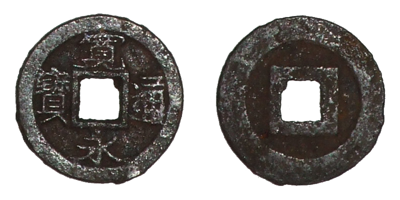 Kanei-tsuho-kameido-tetsu